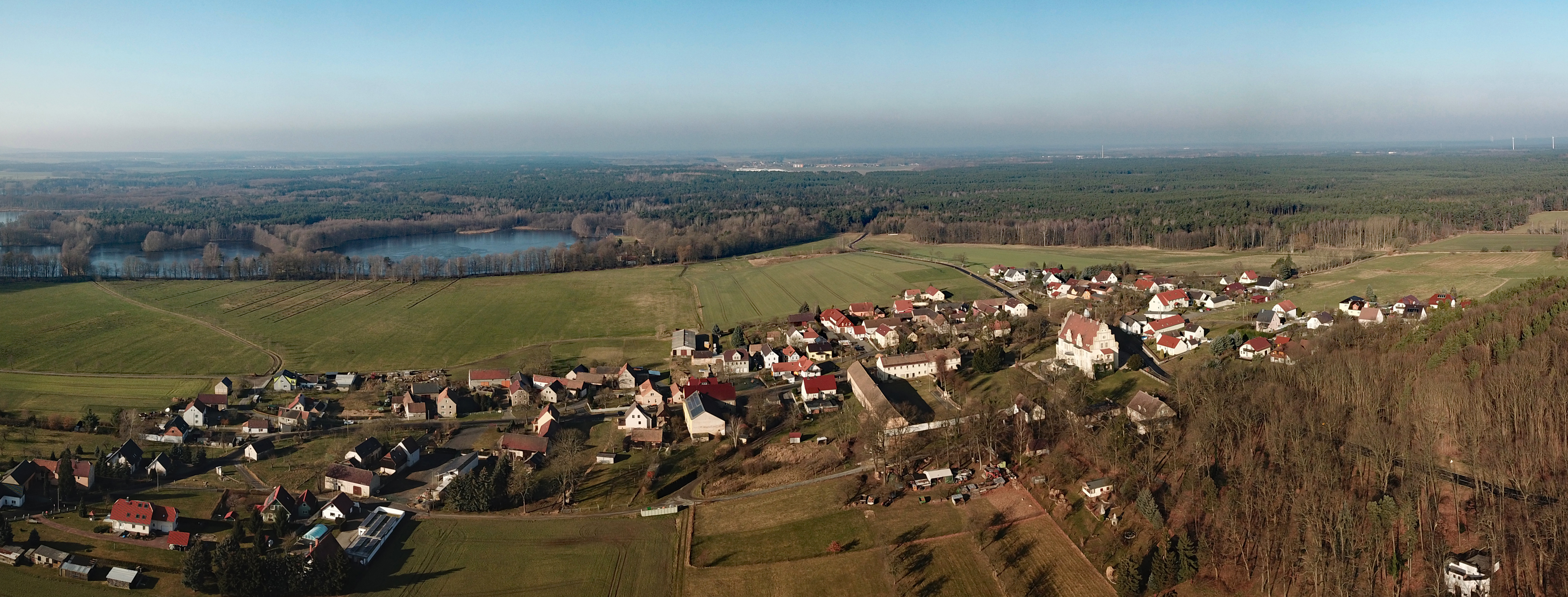 Weißig (Oßlng, Saxony, Germany) Hornjoserbsce: Powětrowy wobraz Wysokeje pola Wóslinka.